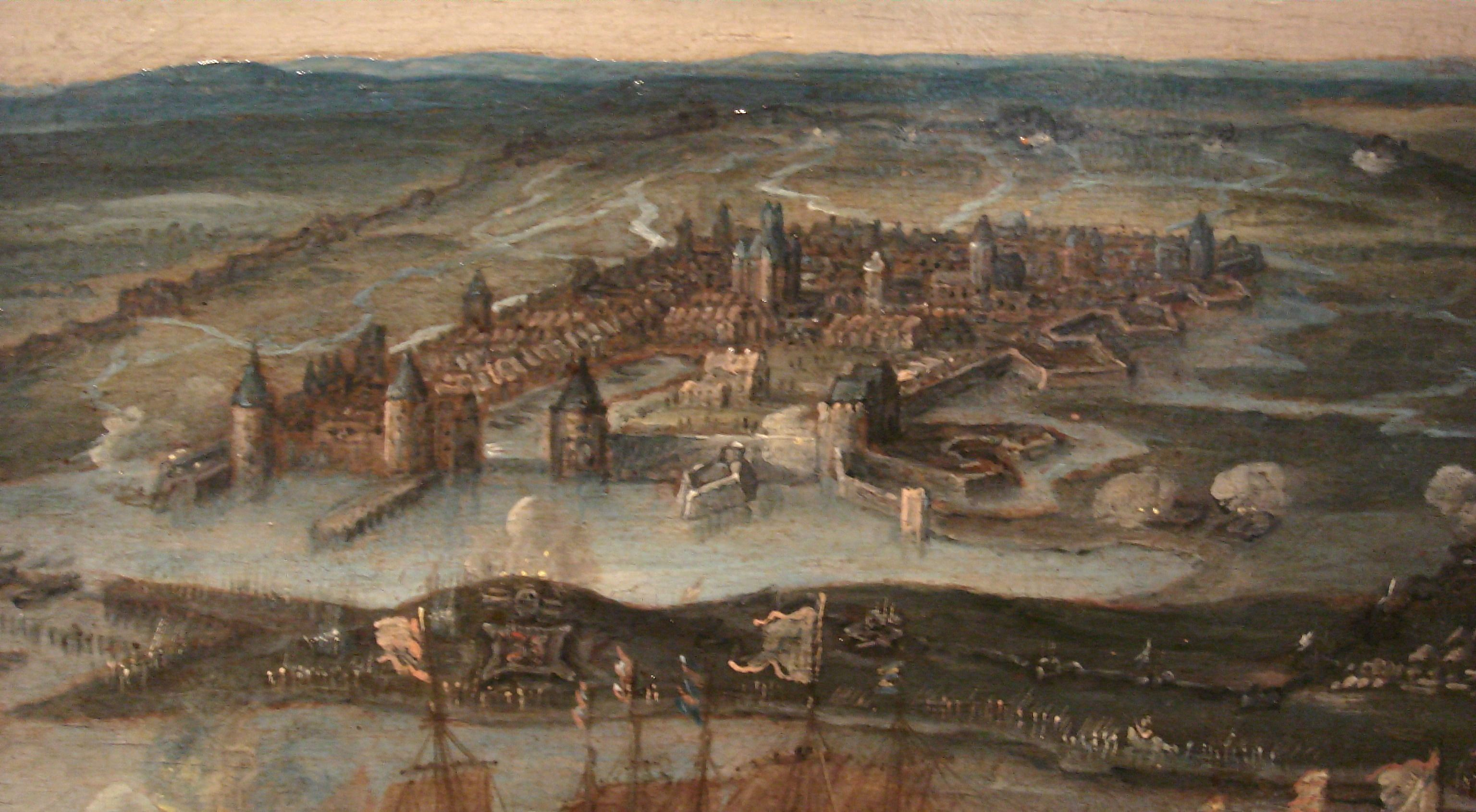 La_Rochelle_during_the_1628_siege, detail of the Surrender of La Rochelle